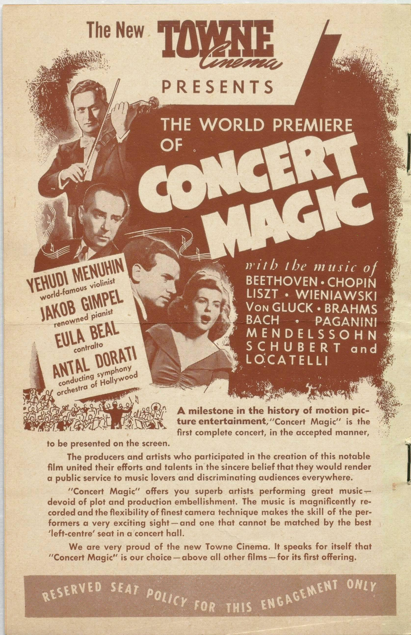 Poster depicting first concert film